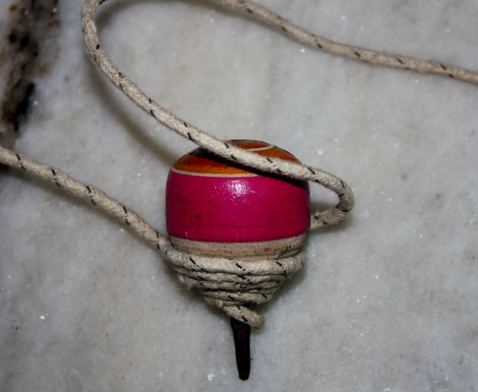 Lattu (লাটিম), Kolkata, West Bengal, India